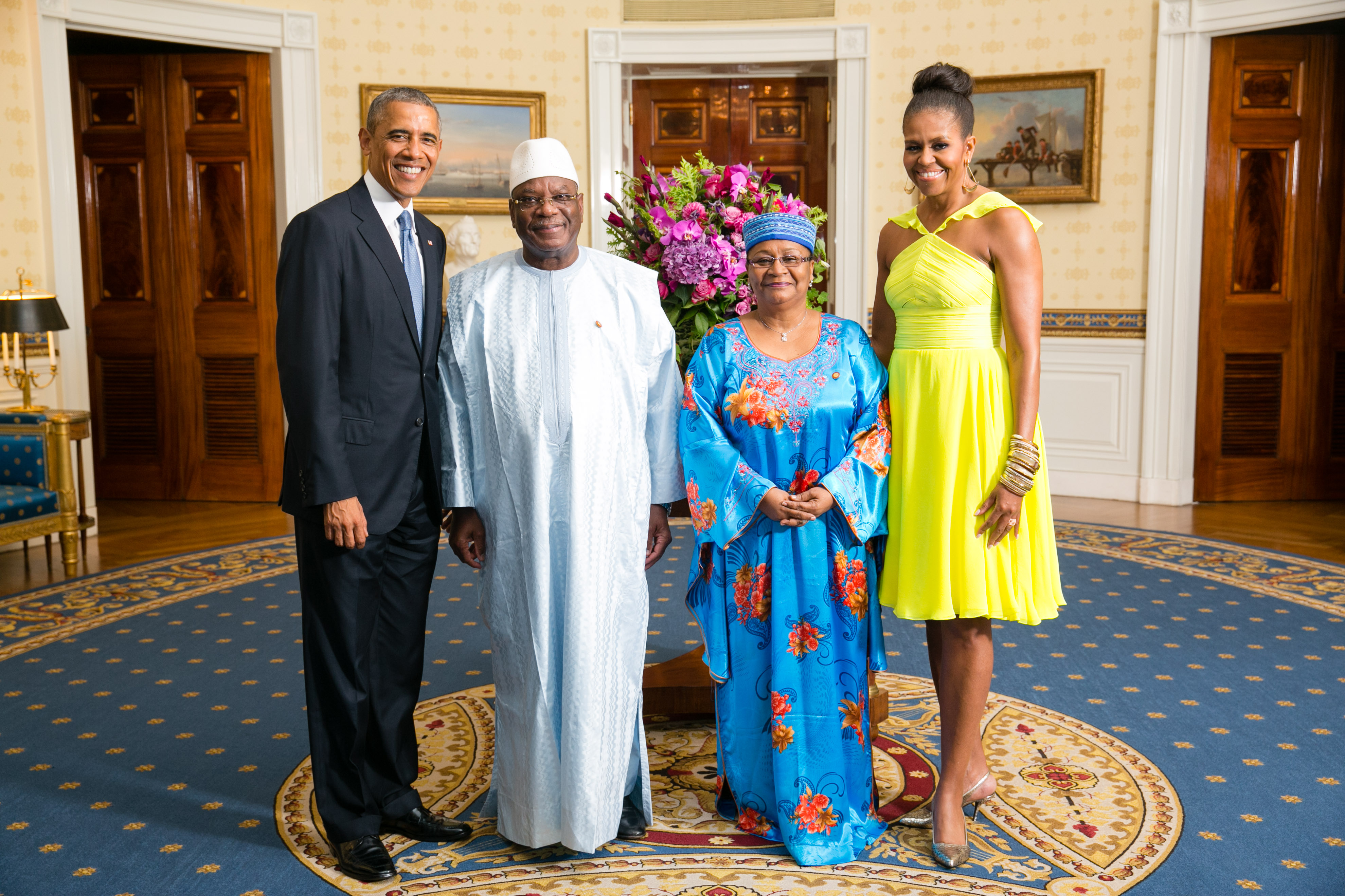 President Barack Obama and First Lady Michelle Obama greet His Excellency Ibrahim Boubacar Keïta, President of the Republic of Mali, and Mrs. Keïta Aminata Maiga, in the Blue Room during a U.S.-Africa Leaders Summit dinner at the White House, Aug. 5, 2014. [Official White House Photo by Amanda Lucidon] This official White House photograph is in the public domain from a copyright perspective, so while restrictions such as personality or privacy rights may apply, in general, manipulations are allowed.